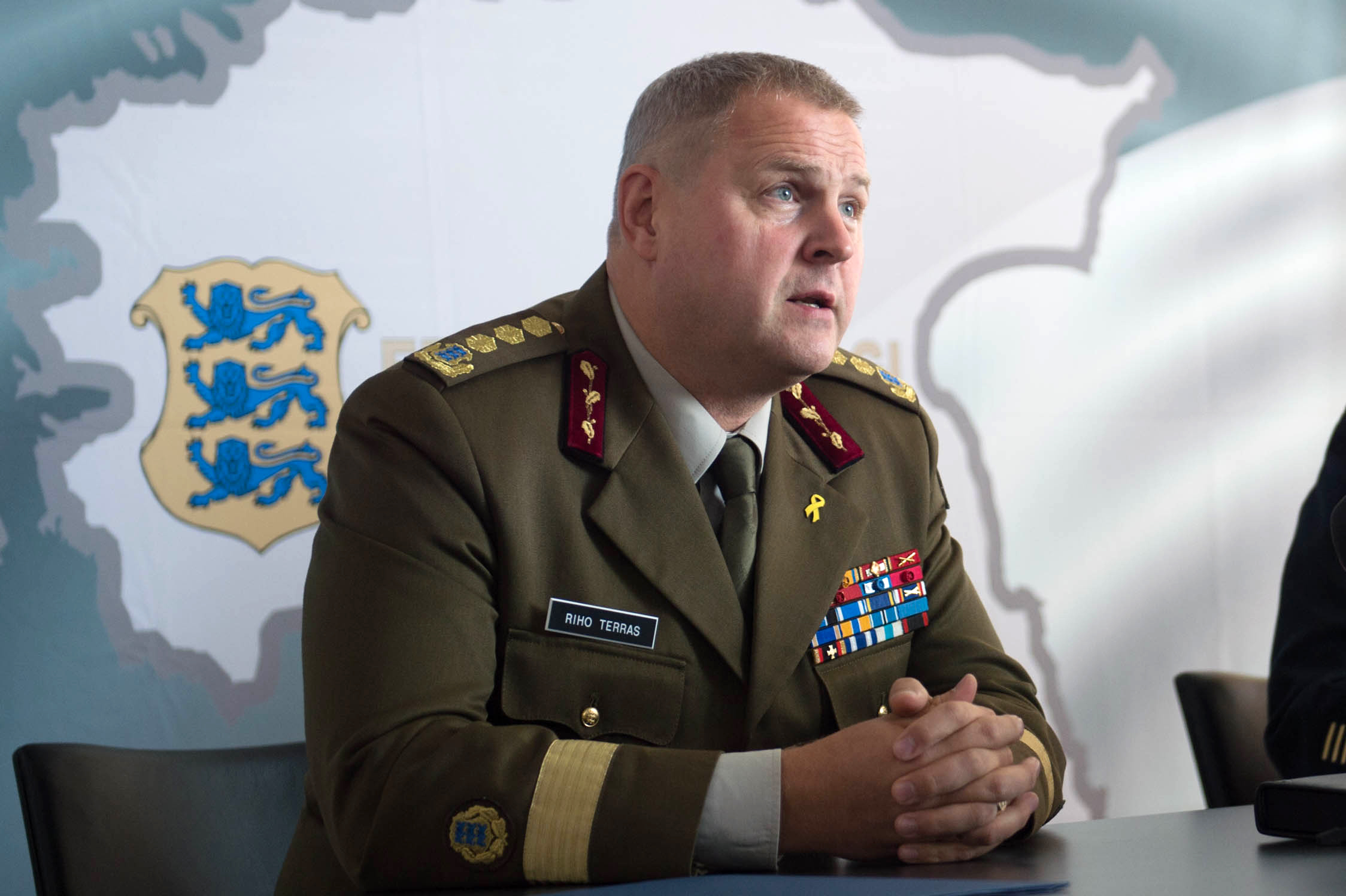 Estonian Lt. Gen. Riho Terras, Commander of Estonian Defense Forces at the press conference with Gen. Martin E. Dempsey, chairman of the Joint Chiefs of Staff, in Tallinn, Estonia